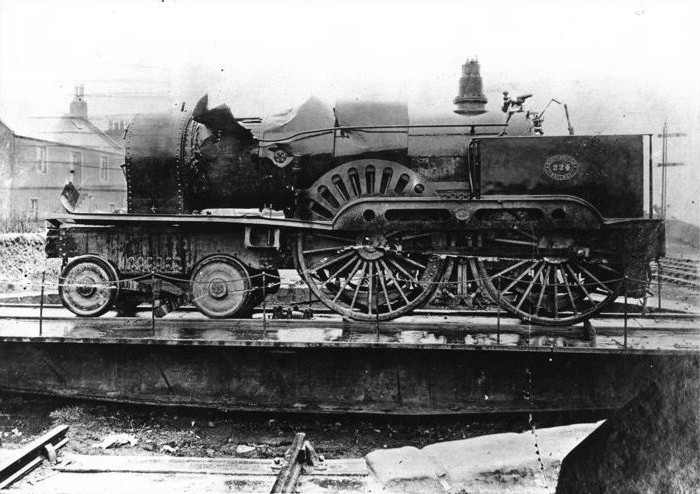 North British Railway locomotive 224, recovered from the water after the Tay Bridge disaster. Originally issued as a postcard captioned "Old Tay Bridge Disaster, 1879 The Engine"